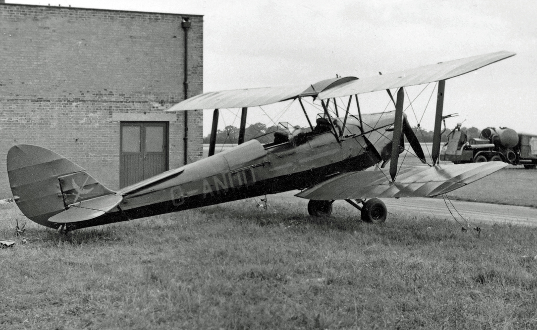 De Havilland DH.82A Tiger Moth G-ANOD based at Ipswich Airport in 1954